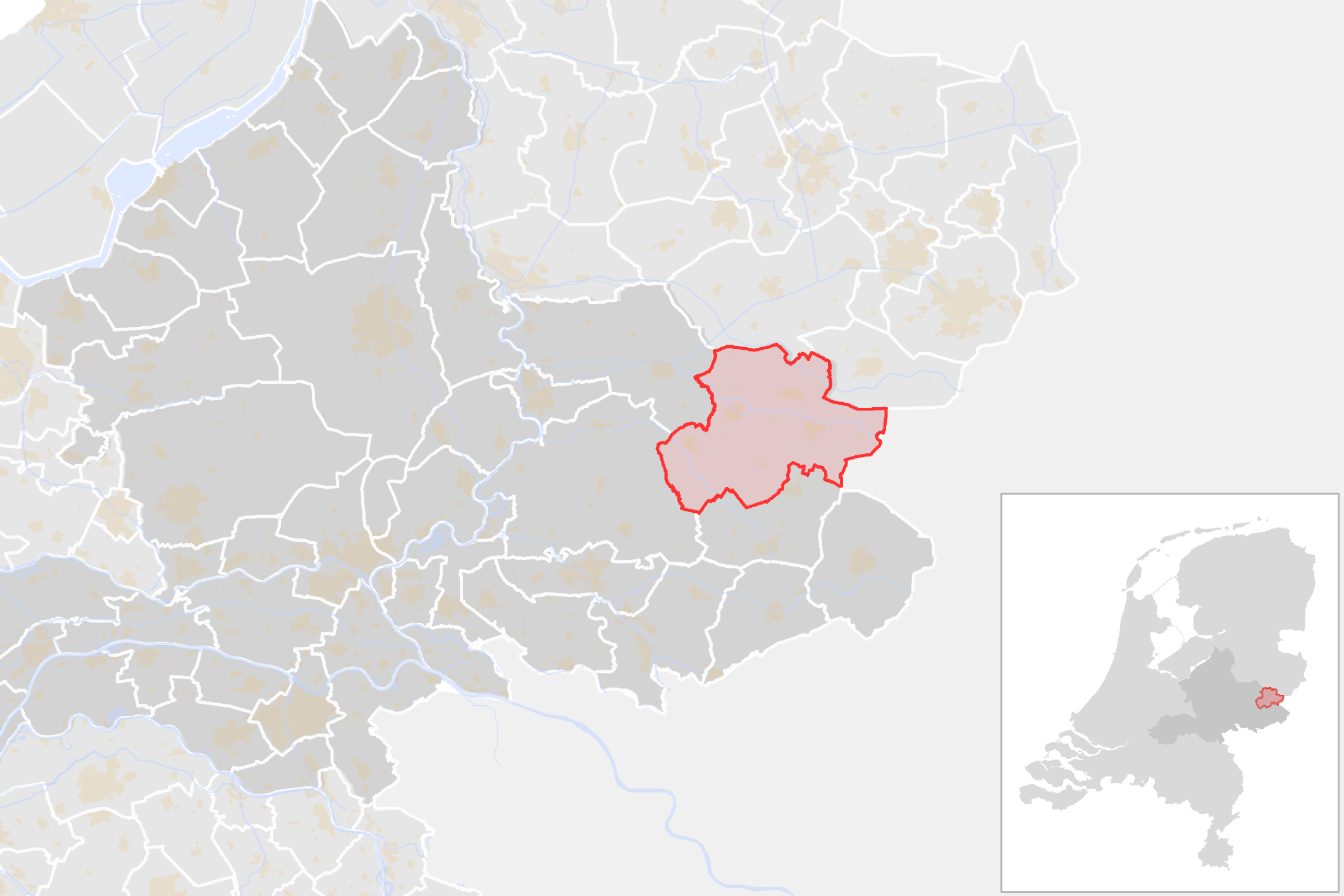 Locator map showing municipality boundary of one of the 390 Dutch municipalities (as of 2016)